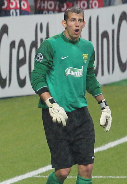 Martin Dúbravka